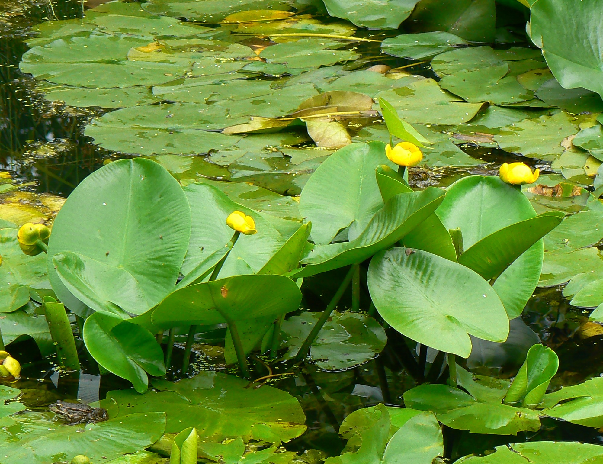 Yellow pond-lilies at , Hluboká nad Vltavou, Czech Republic